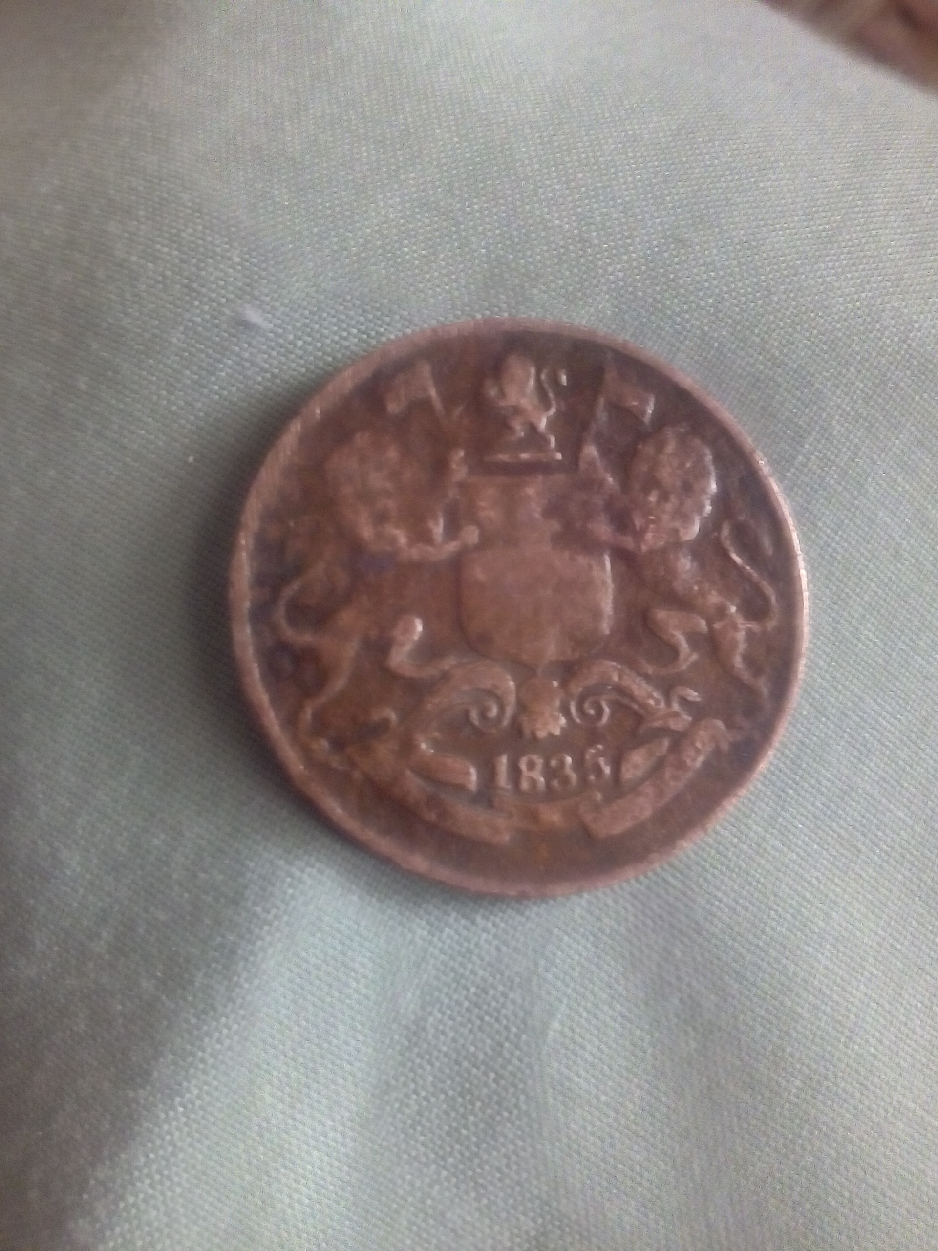 1835 East India Company Coin of 'One Quarter Anna' head.